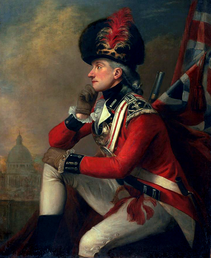 A soldier called Major John André